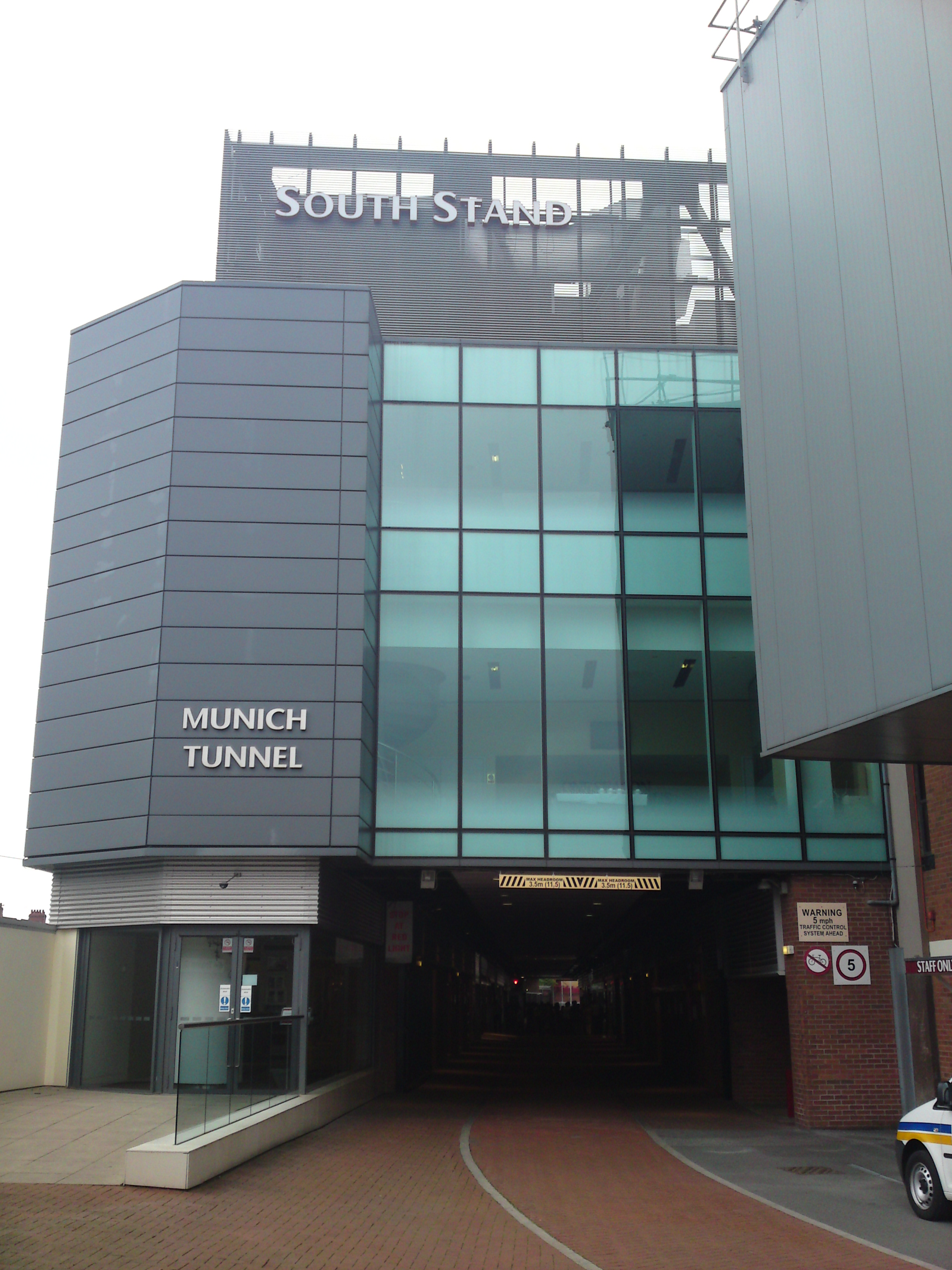 The Munich Tunnel, which runs underneath the South Stand at Old Trafford, Manchester, named for the Munich air disaster of 1958